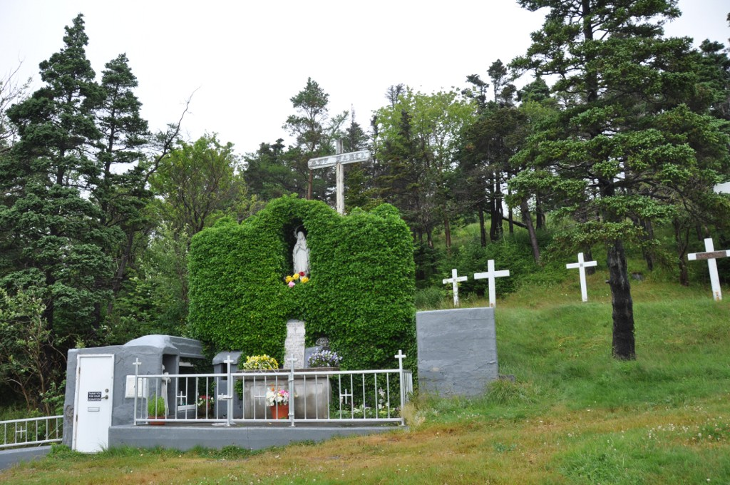 Midnight Hill and Grotto de Lourdes on Mass Rock Municipal Heritage Site, Renews-Cappahayden, Newfoundland.